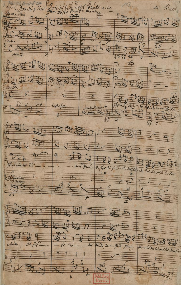 First page of manuscript P124 of cantata BWV 161 by J.S. Bach, with "item Festo Purific Mariae" added in Bach's own handwriting. The musical score was copied by an unknown copyist, but Bach added the dynamical markings himself.